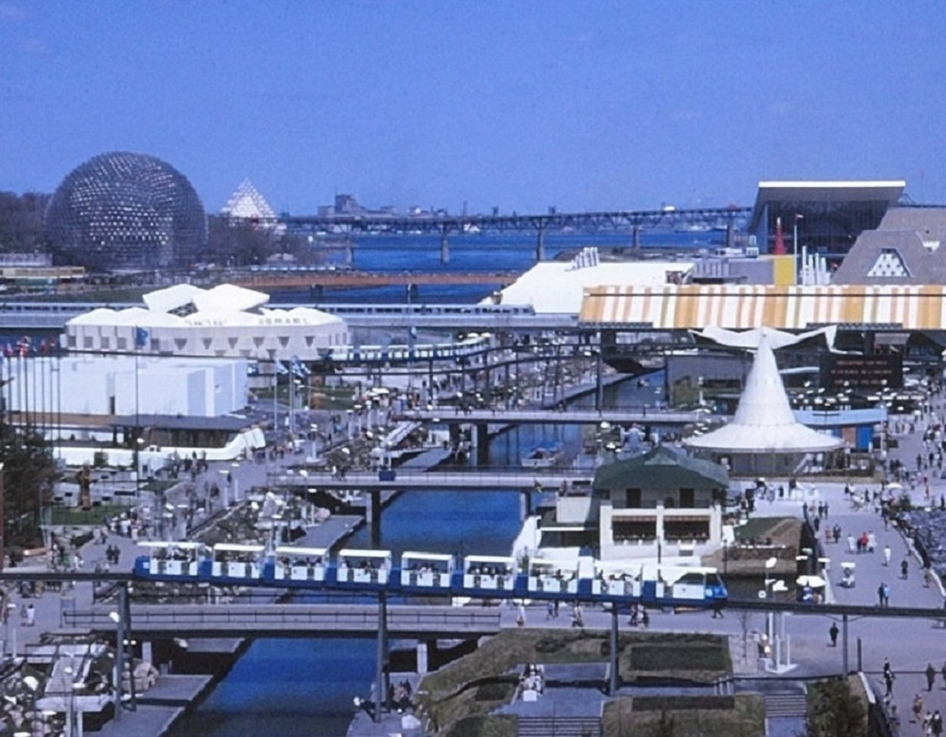 Expo 67, Notre-Dame island seen from the Katimavik of the Canadian pavilion; two trains of the Minirail, one in front of the Jamaïcan pavilion, the other beside Israël pavilion; The Expo-Express on the Pont des Îles bridge. Expo 67,Montreal, Quebec , Canada, 1967.